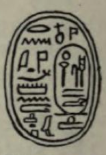 Scarab of Sobekhotep III giving the name of his father. The scarab reads "The good god Sekhemresewadjtawy Sobek[hotep], the god's father's name Mentuhotep". Drawing by Flinders Petrie, 1897.